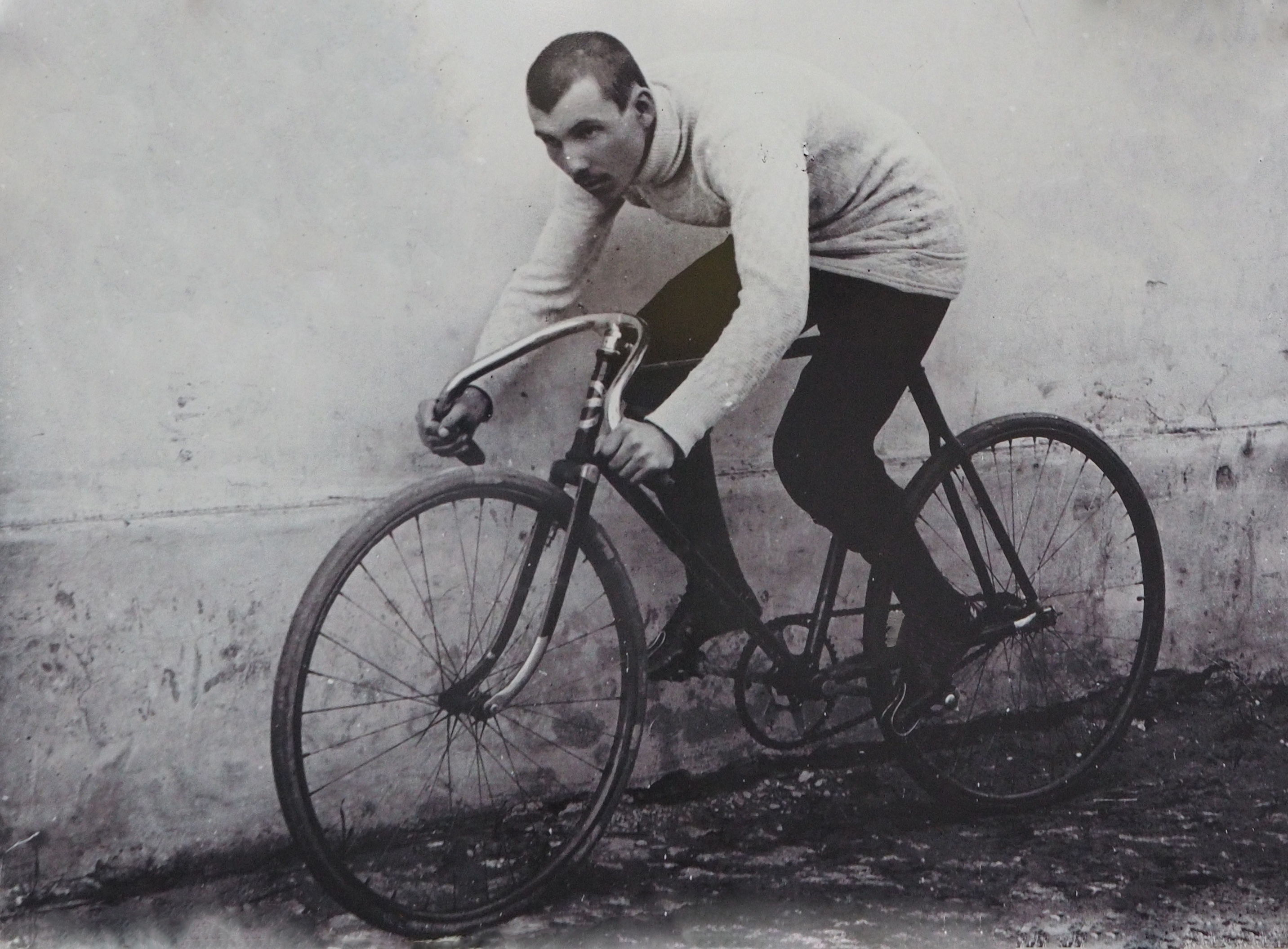 Ivan Sarić on a bicycle